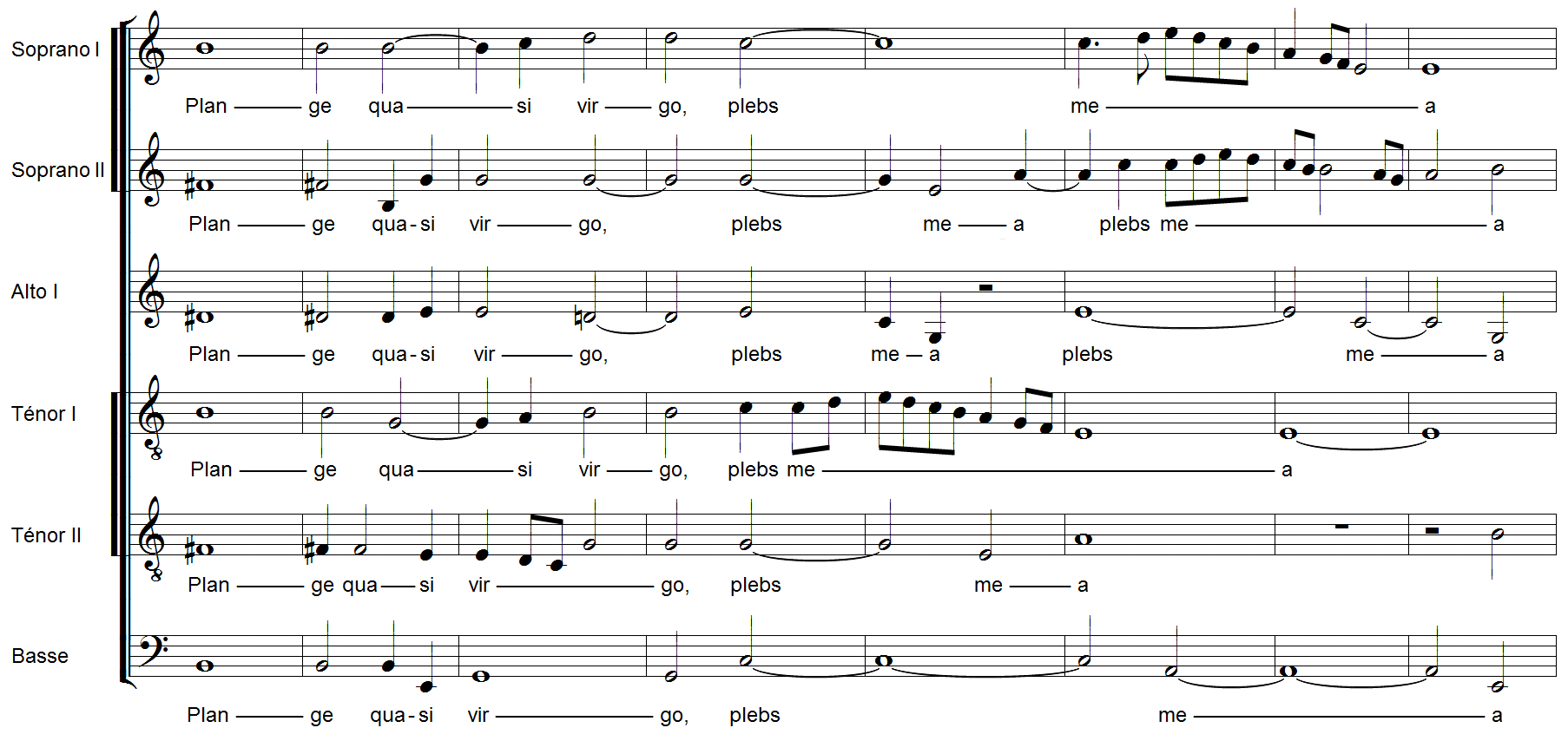 Gesualdo - Plange quasi Virgo Plebs mea